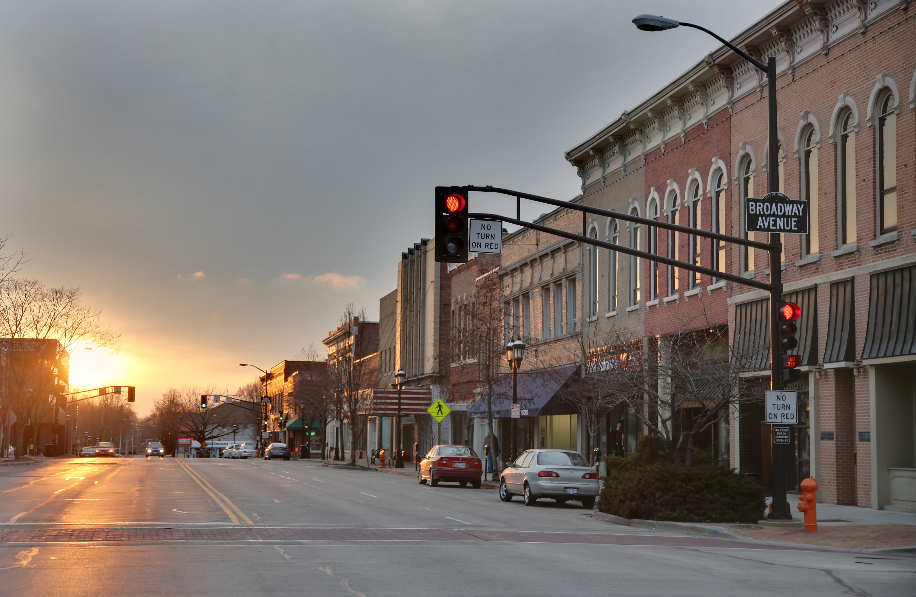 Sunset in downtown Urbana, Illinois, USA